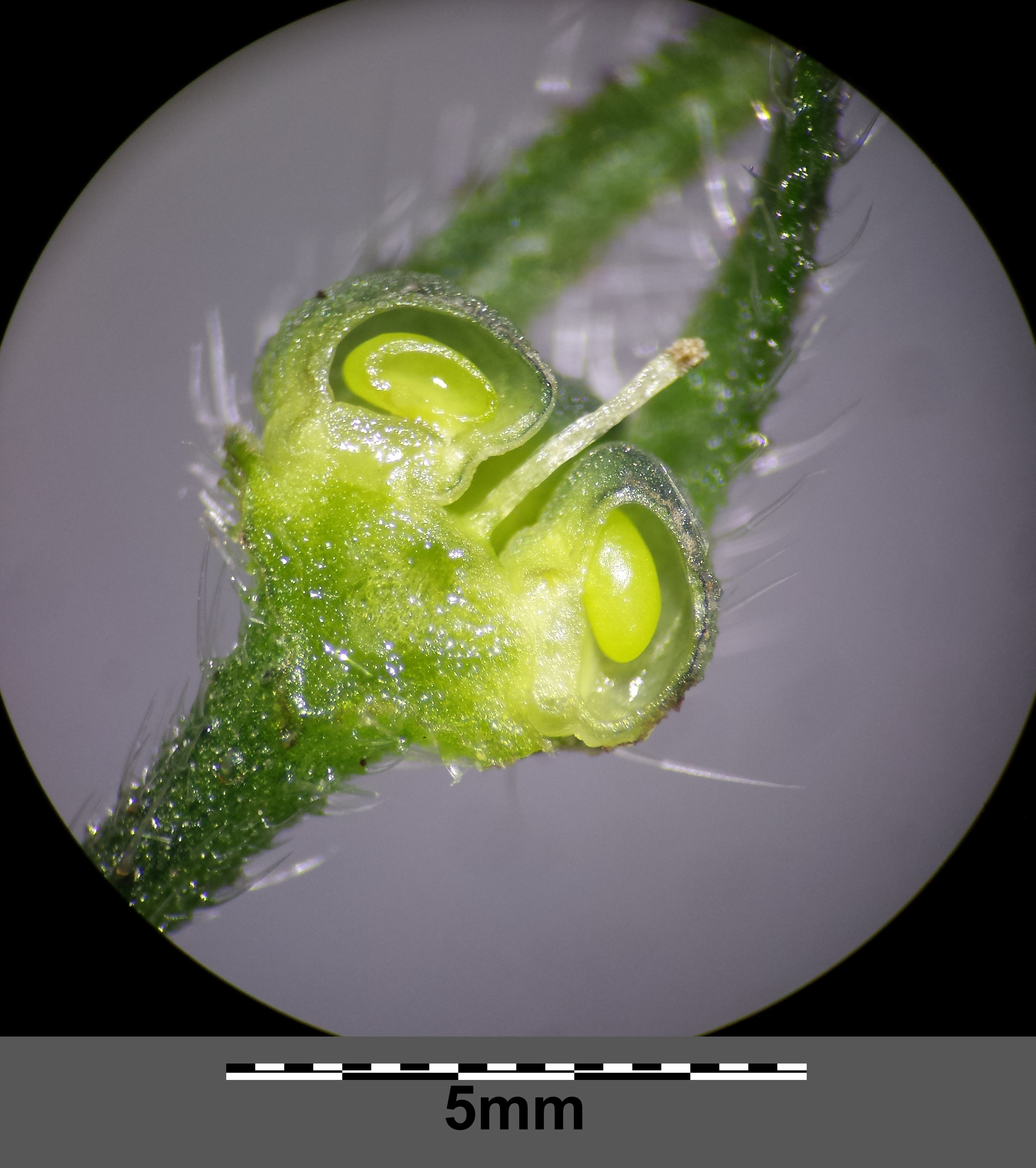 Fruit opened Taxonym: Anchusa arvensis ss Fischer et al. EfÖLS 2008 ISBN 978-3-85474-187-9 Location: Sinawastingasse, Vienna-Floridsdorf - ca. 160 m a.s.l. Habitat: dry, ruderal slope